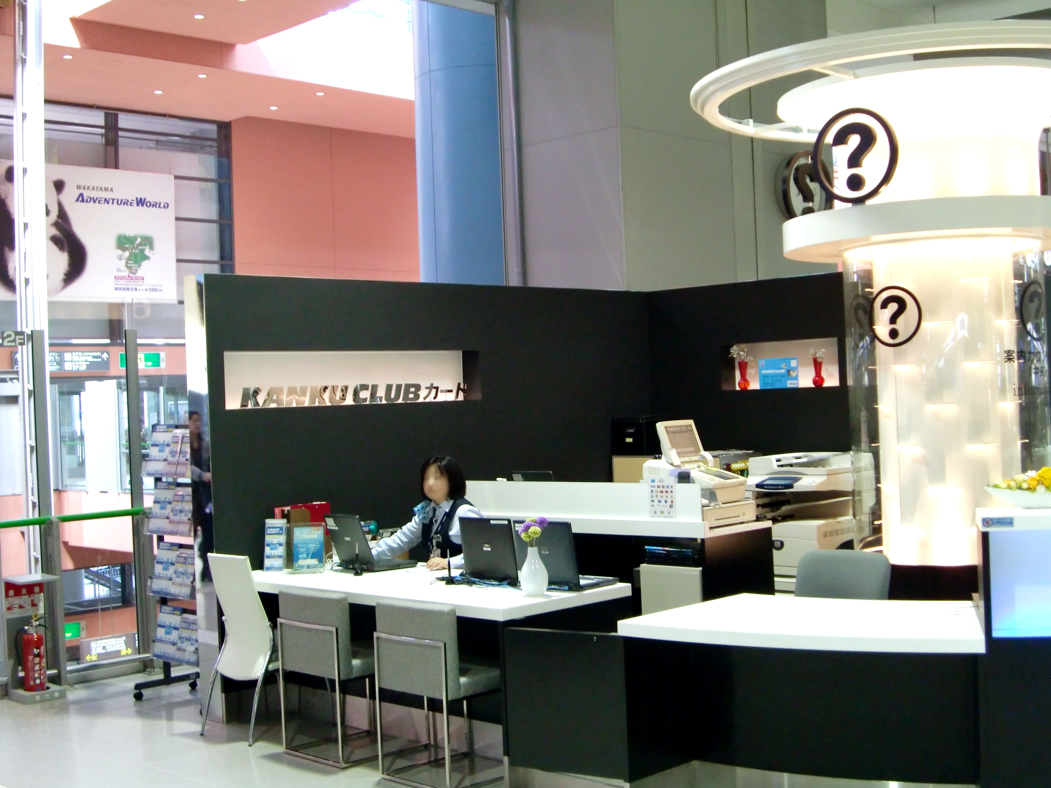 KANKU CLUB CARD Counter,Izumisano-City Osaka Japan.